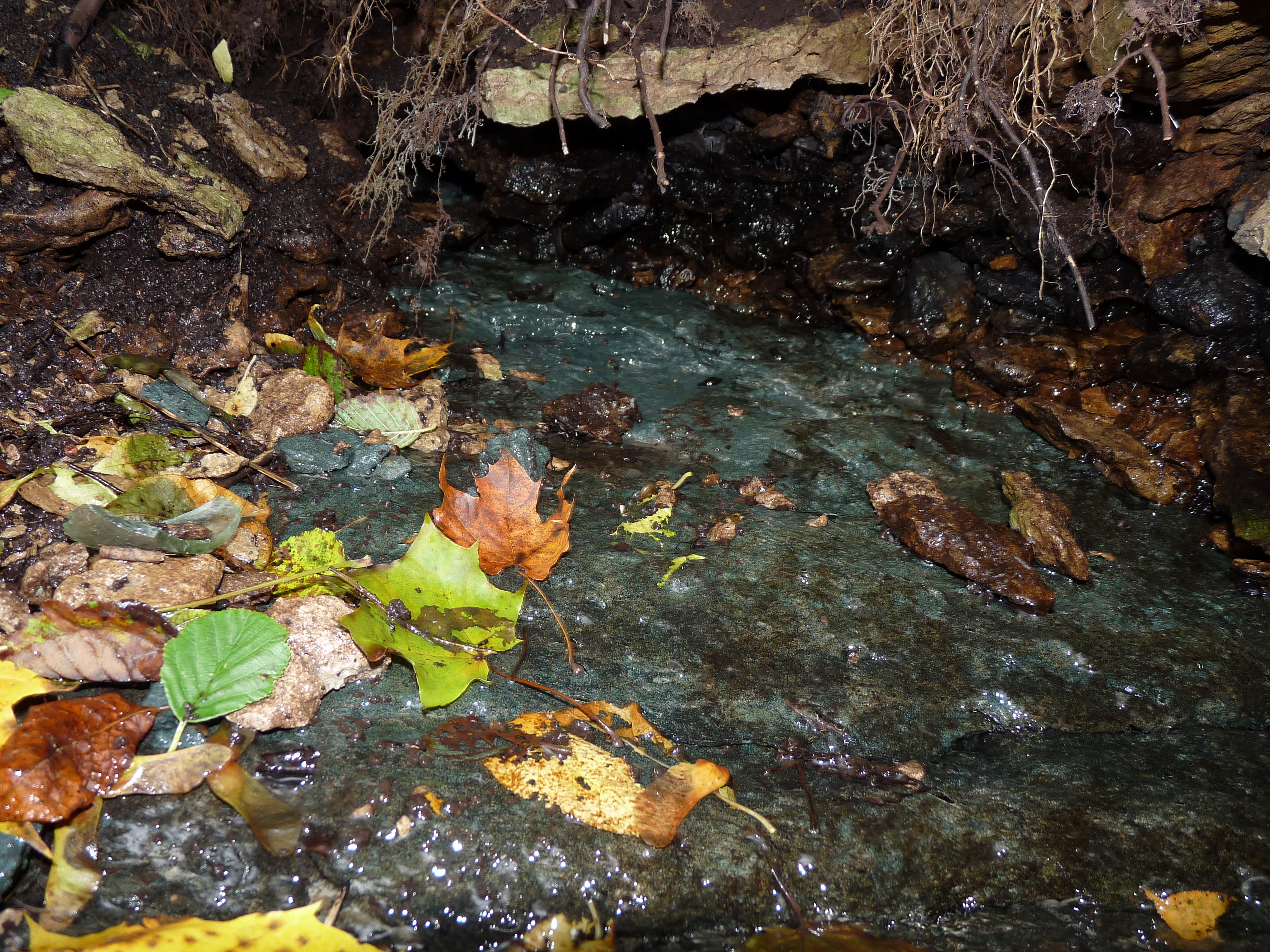 Varsaallikad